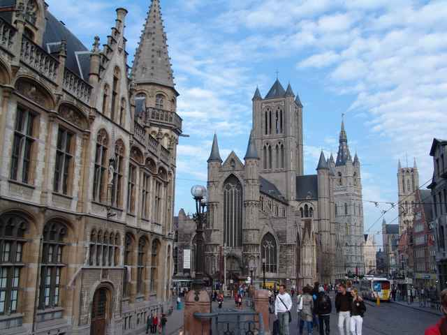 My photo. copyright santoshkc